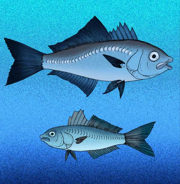 Reconstructions of two species of the primitive jackfish genus Archaeus from the Rupelian (Lower Oligocene) of Canton Glarus, Switzerland, Archaeus glarisianus (top) and A. brevis (bottom)